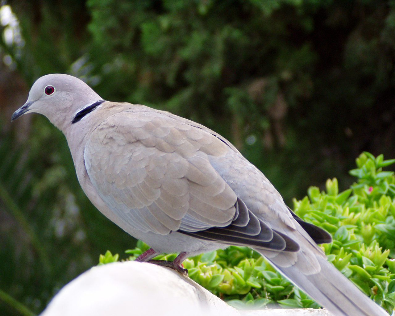 Collared Dove; Photograph taken on Balearic Islands, Spain.